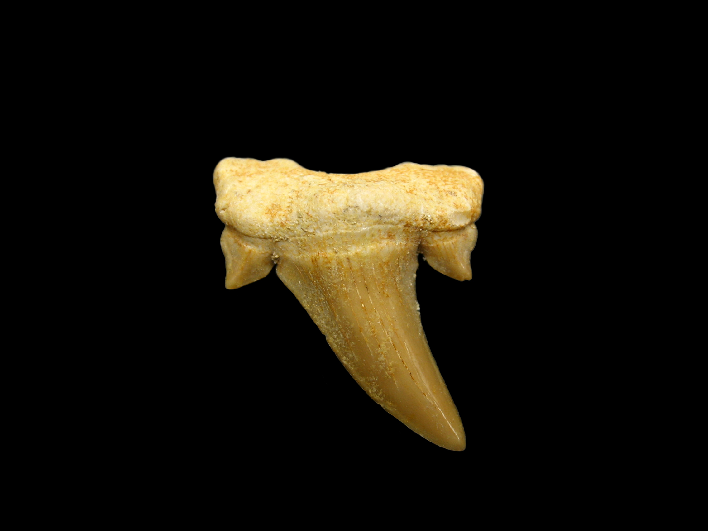 Macro of a shark tooth.